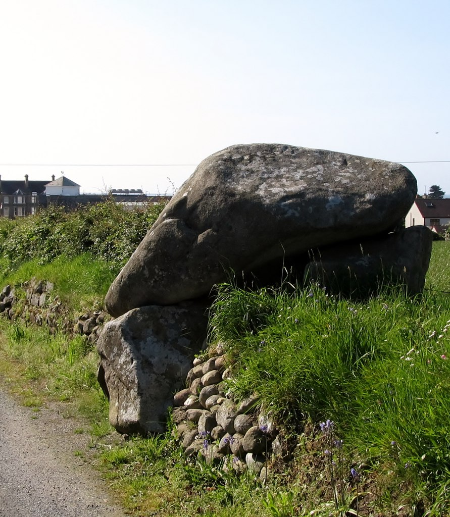 A Neolithic Tomb in the back of Kilkeel's AsdaNot many Asda stores can claim to have a chambered tomb in their back yard. Kilkeel's can.